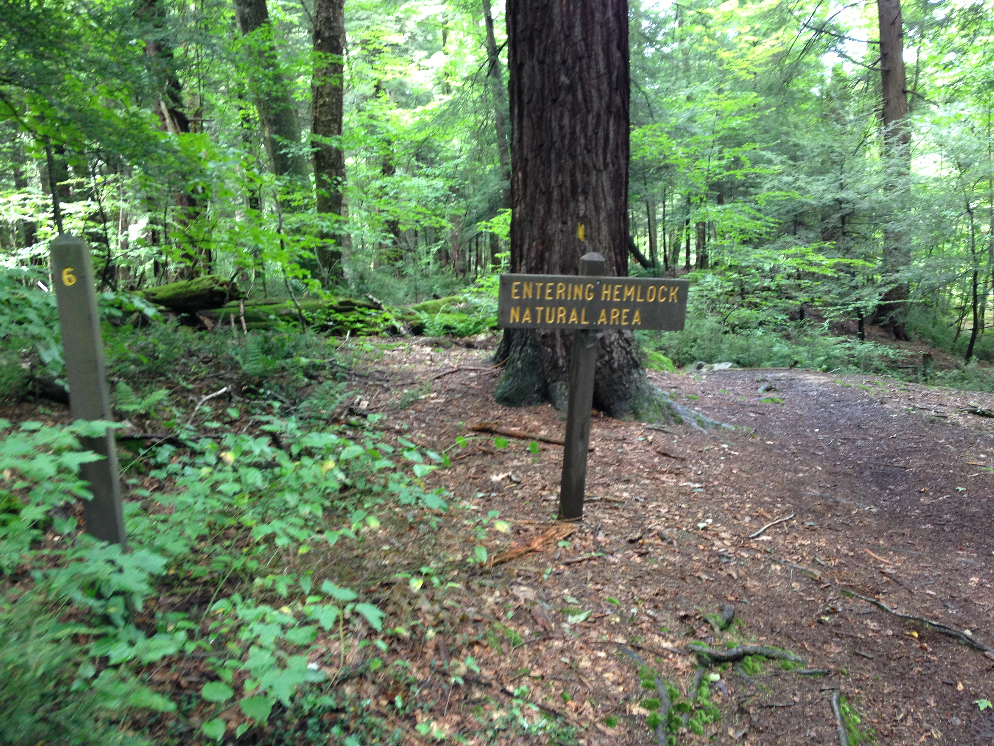 Entrance of "Hemlock Natural Area", the virgin forest (Hemlock) of Laurel Hill State Park